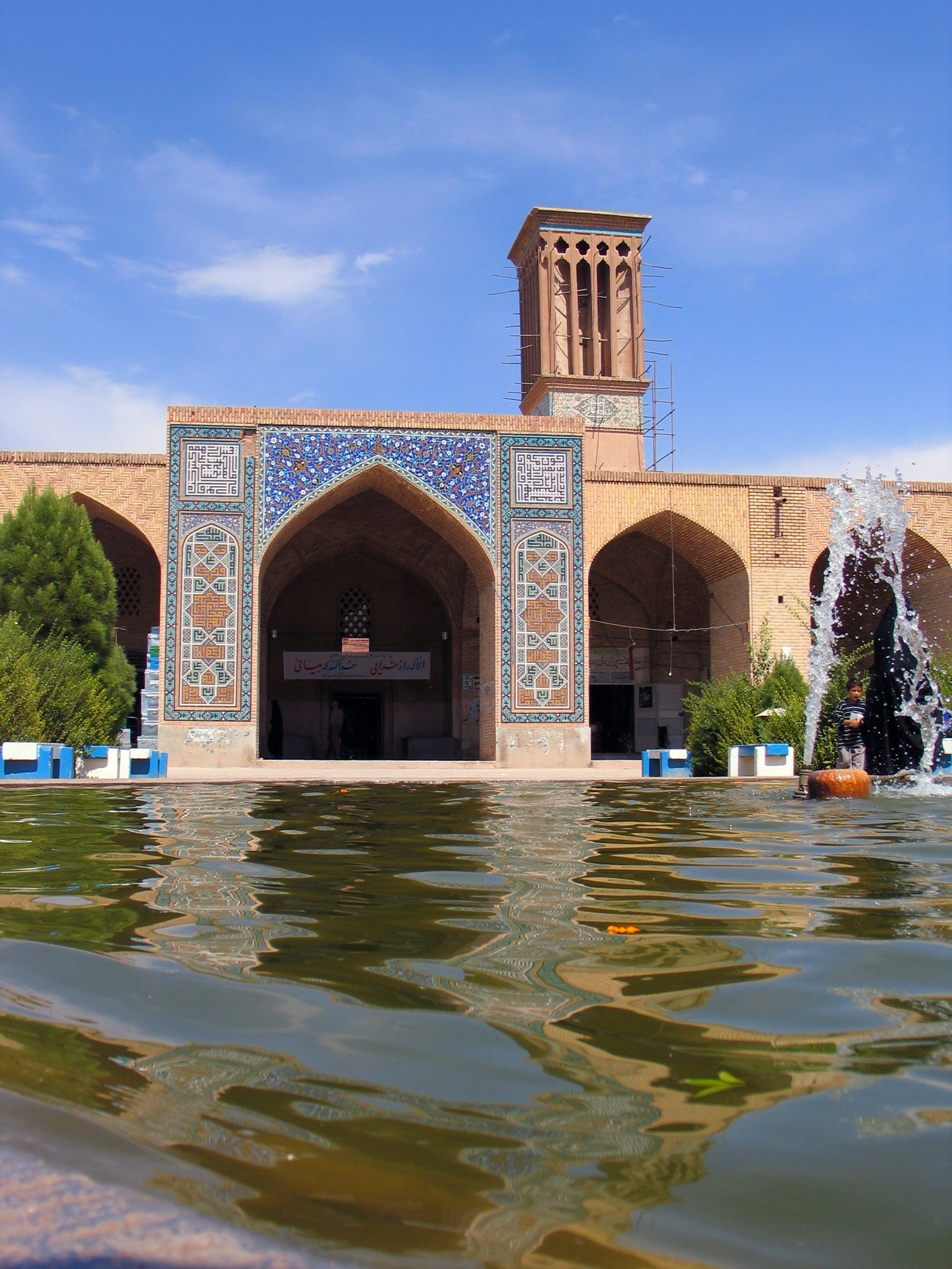 Iwan & Windtower seen from Ganjali Square, Ganjali Khan Complex, Kerman, Iran